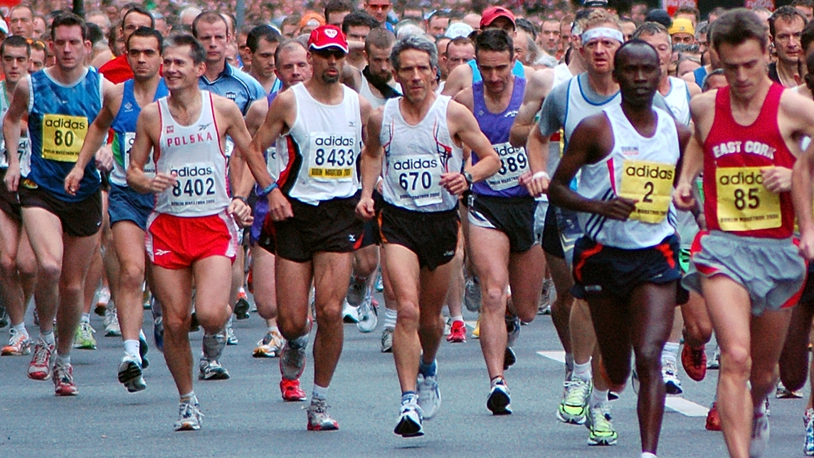 no race, no immigration, no color of skin it's just 26 miles ahead Dublin City Marathon